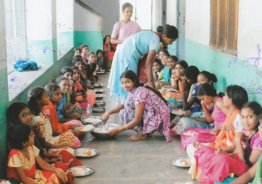 Children in the school hostel having their lunch